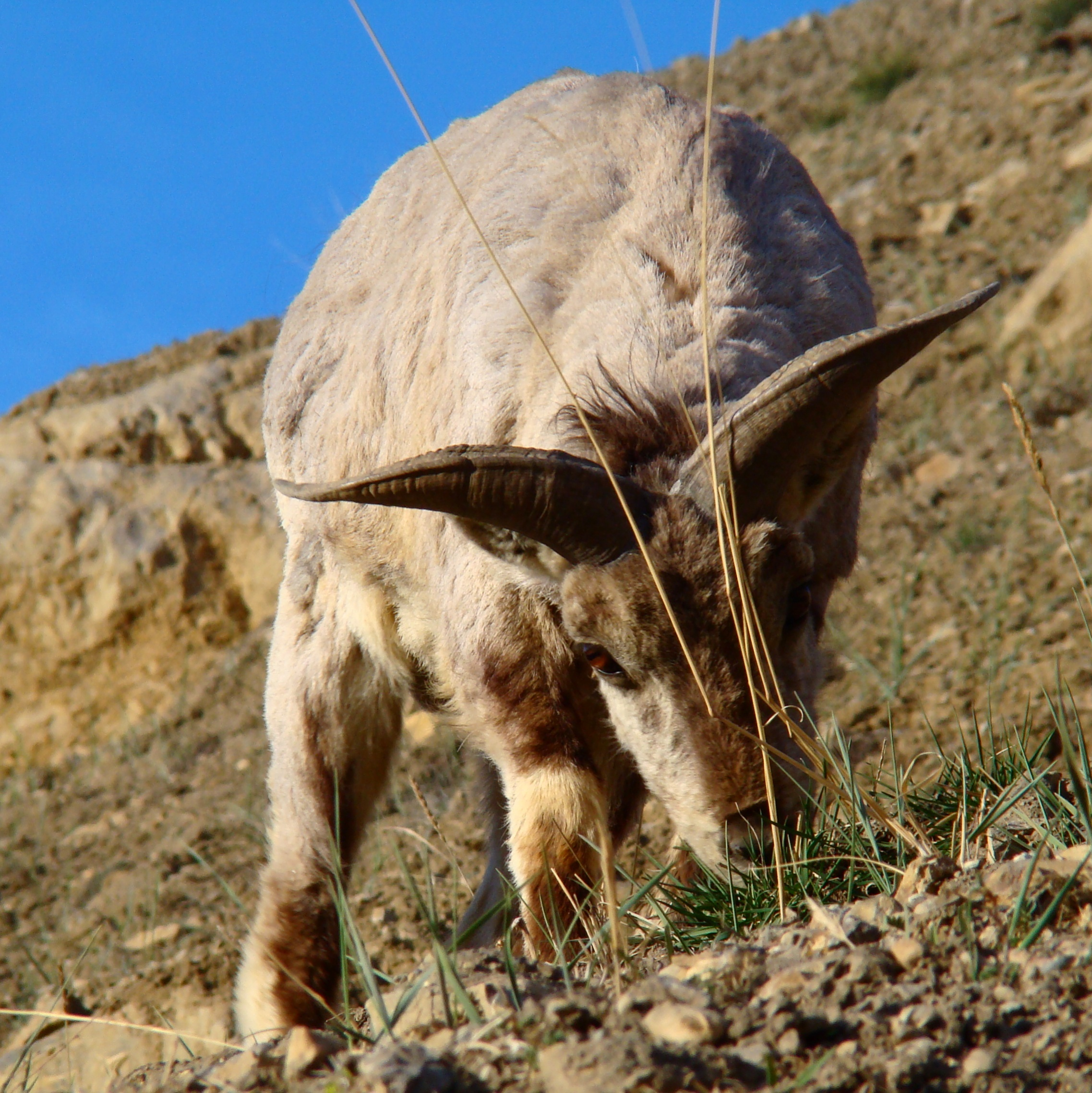 A blue sheep foraging in Kibber wildlife sanctuary